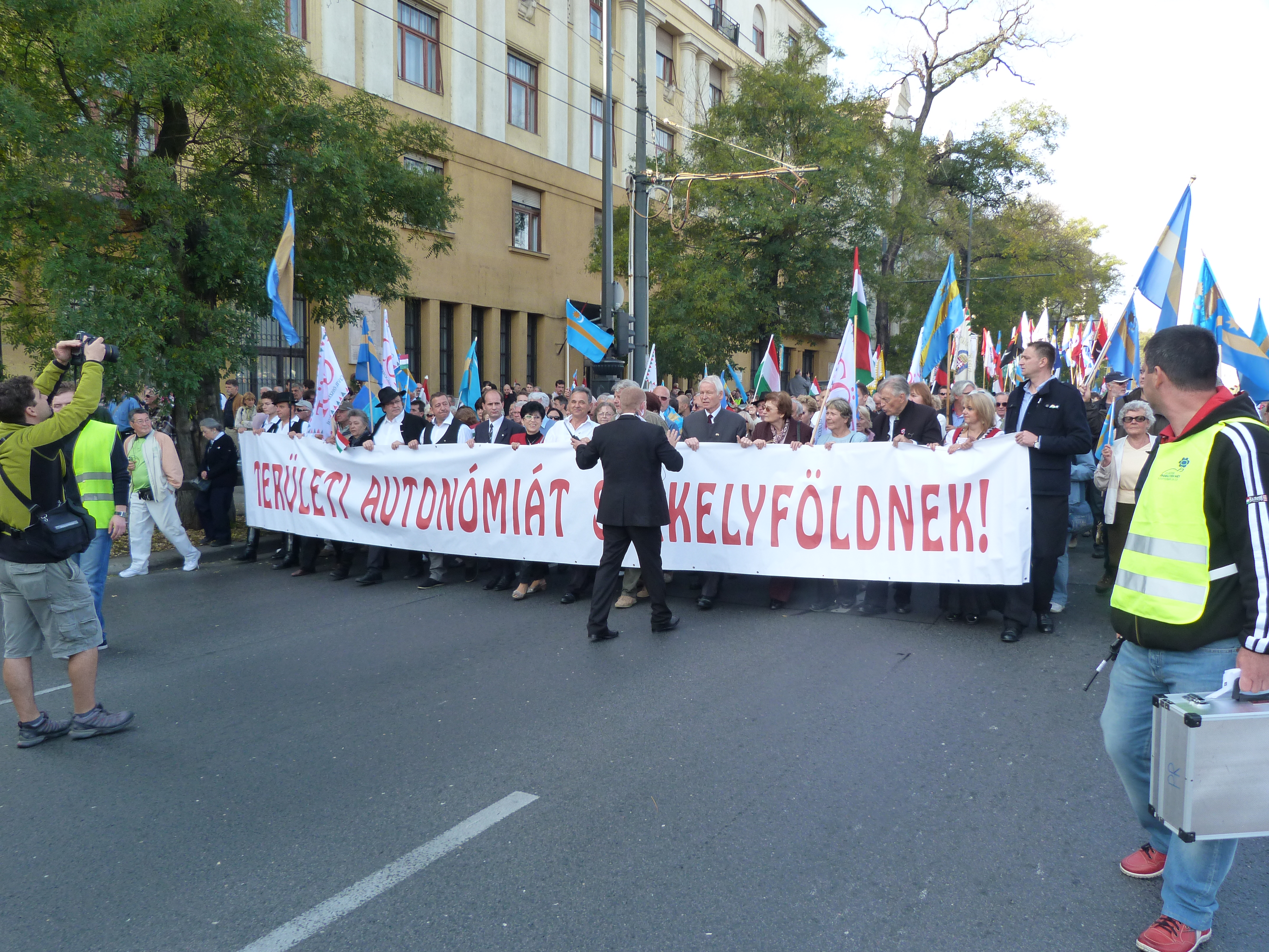 Székely (pronounced [ˈseːkɛj]) Land or Szeklerland (Hungarian: Székelyföld; Romanian: Ţinutul Secuiesc